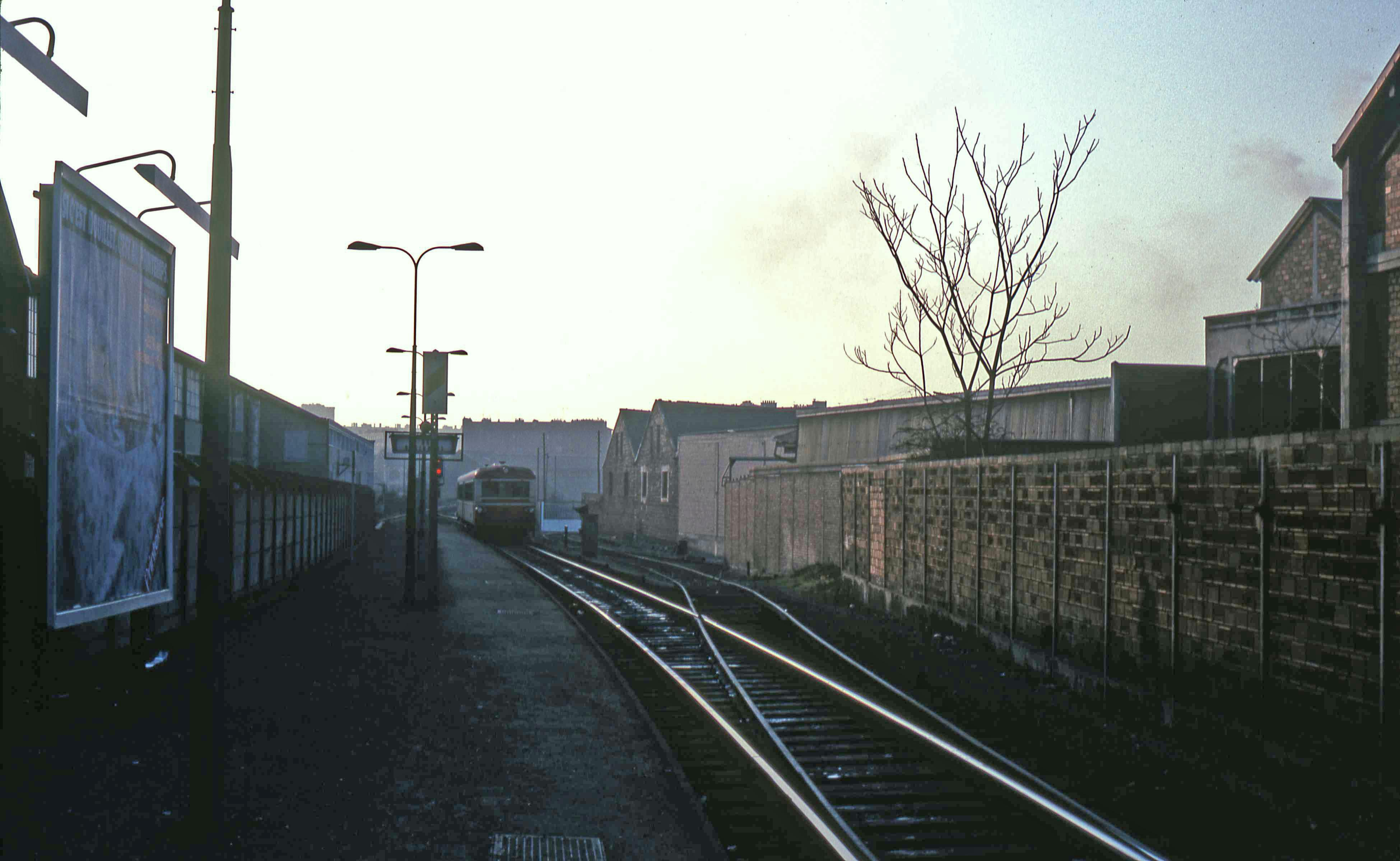 Temporary endstop "Saint-Ouen-Garibaldi" close to the metrostation Garibaldi (metroline 13). The used to continue to Gare du Nord. This was the last non-electrified line close to Paris. This station was closed when the Gennevillier line was taken over by the RER C line.